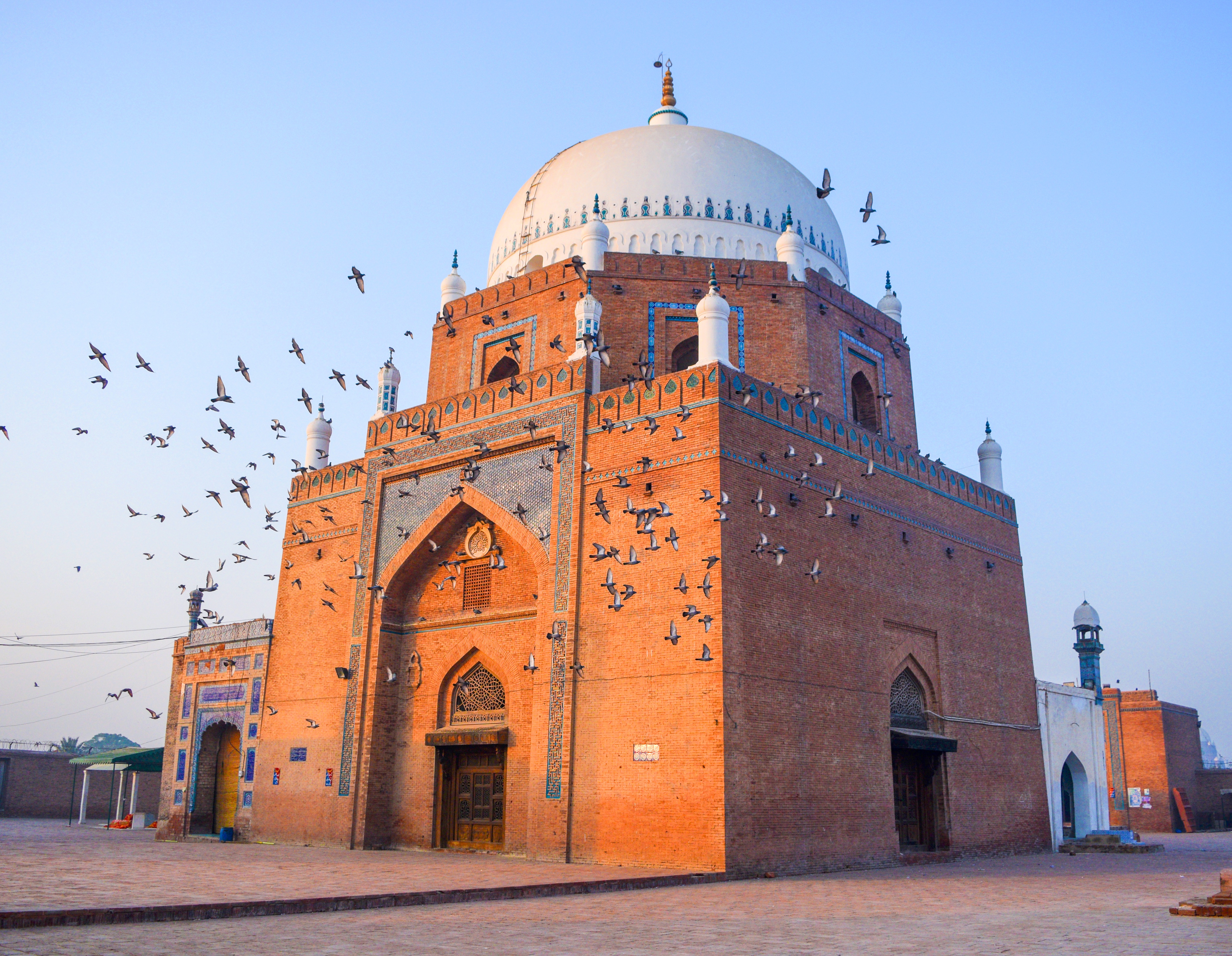 Splendid Shrine of Hazrat Baha-ud-din Zakariya This is a photo of a monument in Pakistan identified as the PB-P-156